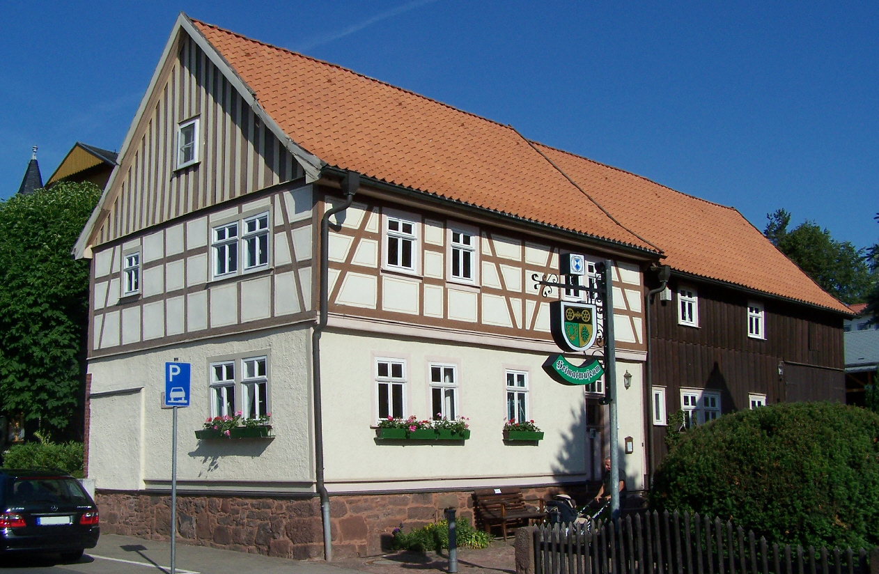 The Museum in Finsterbergen village.